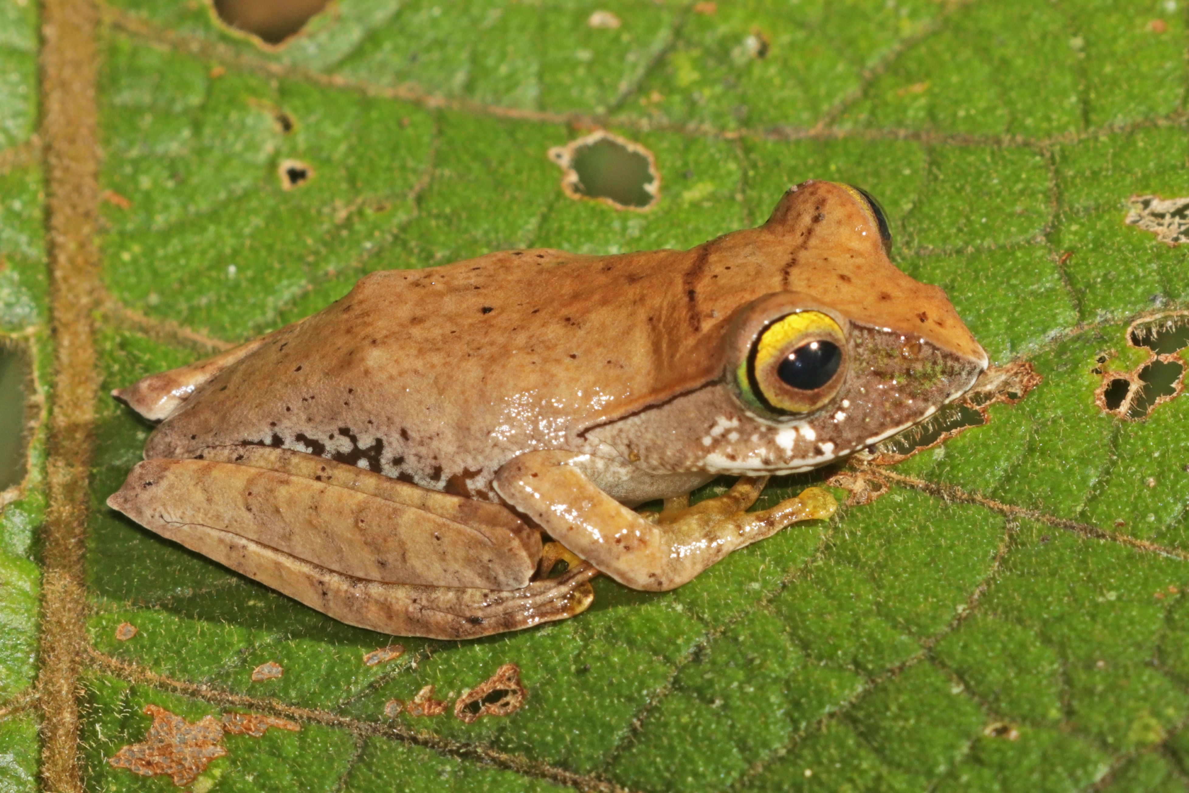 Madagascar bright-eyed frog (Boophis madagascariensis) juvenile, Ranomafana National Park, Madagascar